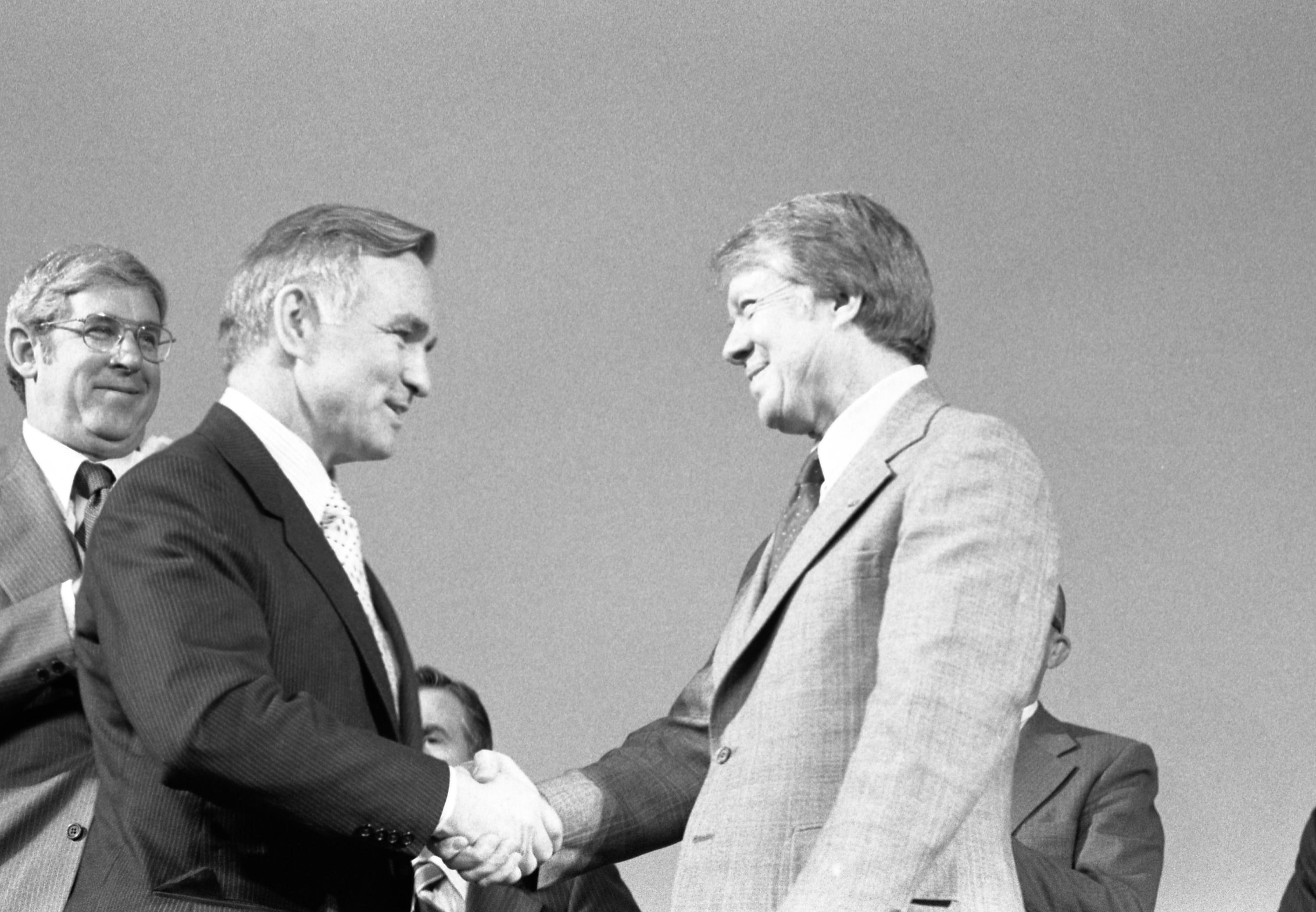 Photo courtesy of Jimmy Carter Library